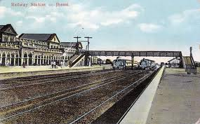 jhansi